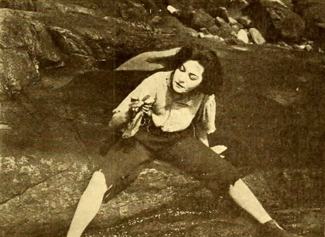 Still from the American film Out of the Fog (1919) with Alla Nazimova, on page 1015 o the February 22, 1919 Moving Picture World. Nazimova plays dual roles in the film, here she is portraying the daughter.